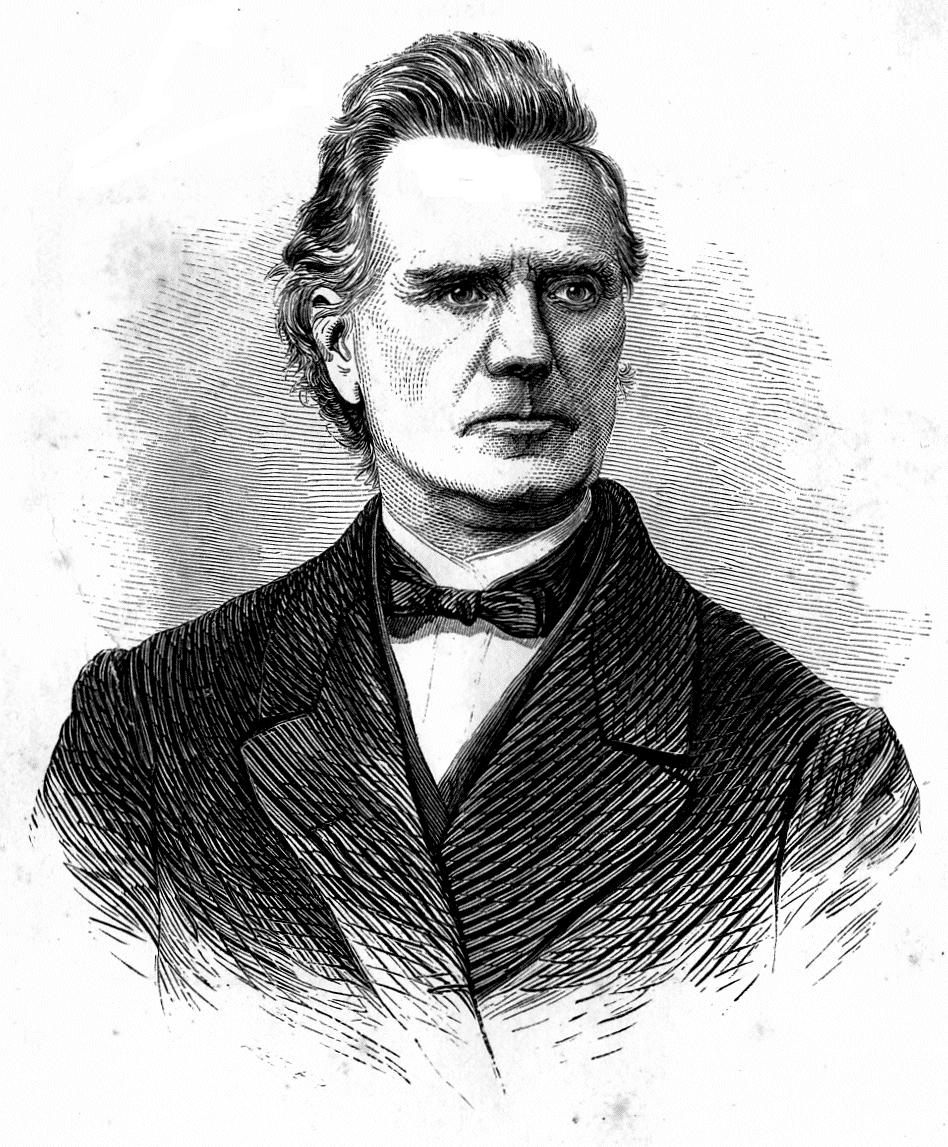 cleaned-up version of JPG uploaded by AboutMovies Gustavus Hines from Oregon and Its Institutions; Comprising a Full History of the Willamette University. By Gustavus Hines, Carlton & Porter, 1868.